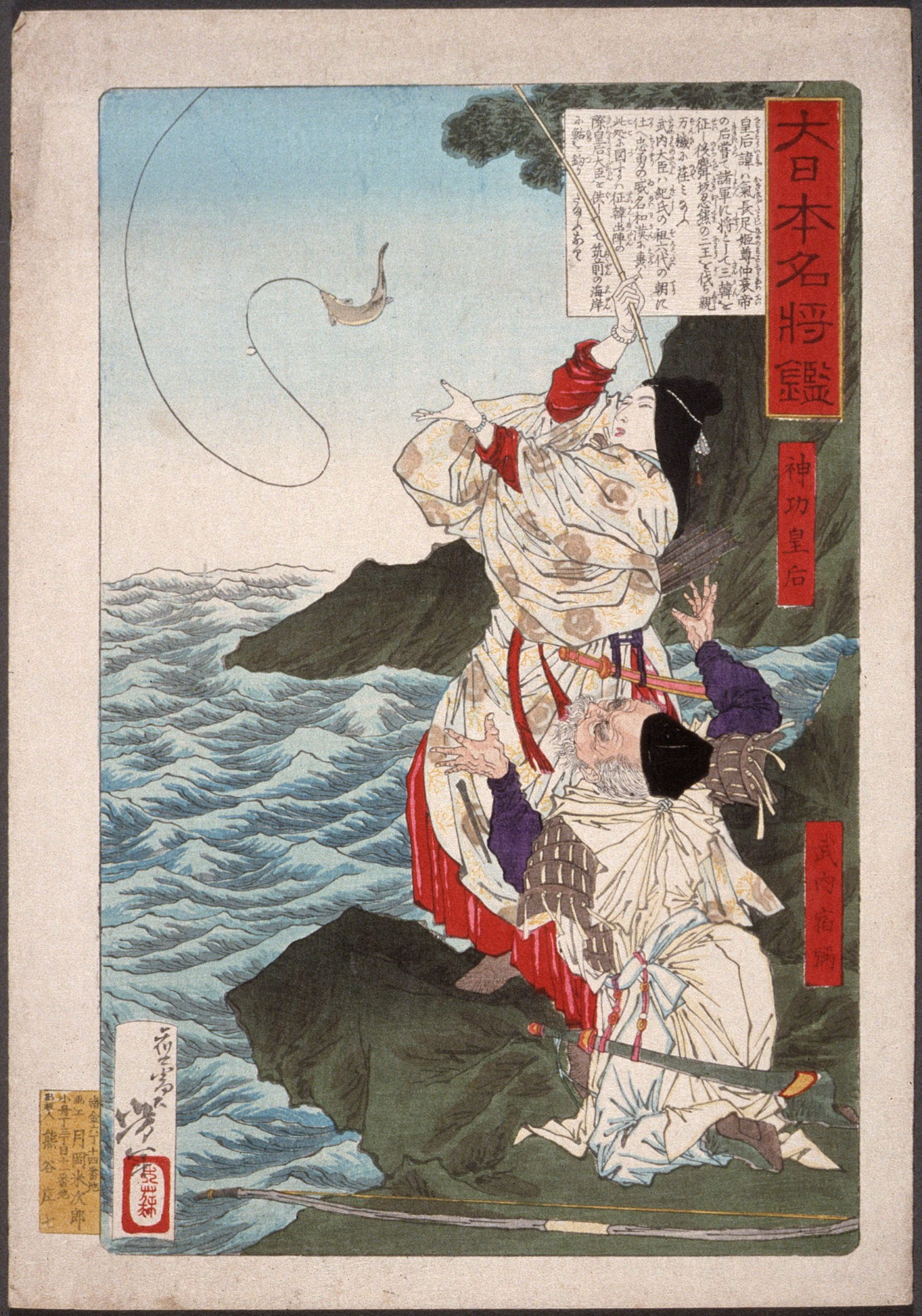 Japan, circa 1876 Series: Mirror of Famous Generals of Great Japan (Dai nihon meishô kagami) Prints; woodcuts Color woodblock print Herbert R. Cole Collection (M.84.31.260) 神功皇后が新羅征討の前に釣り占いを行う場面